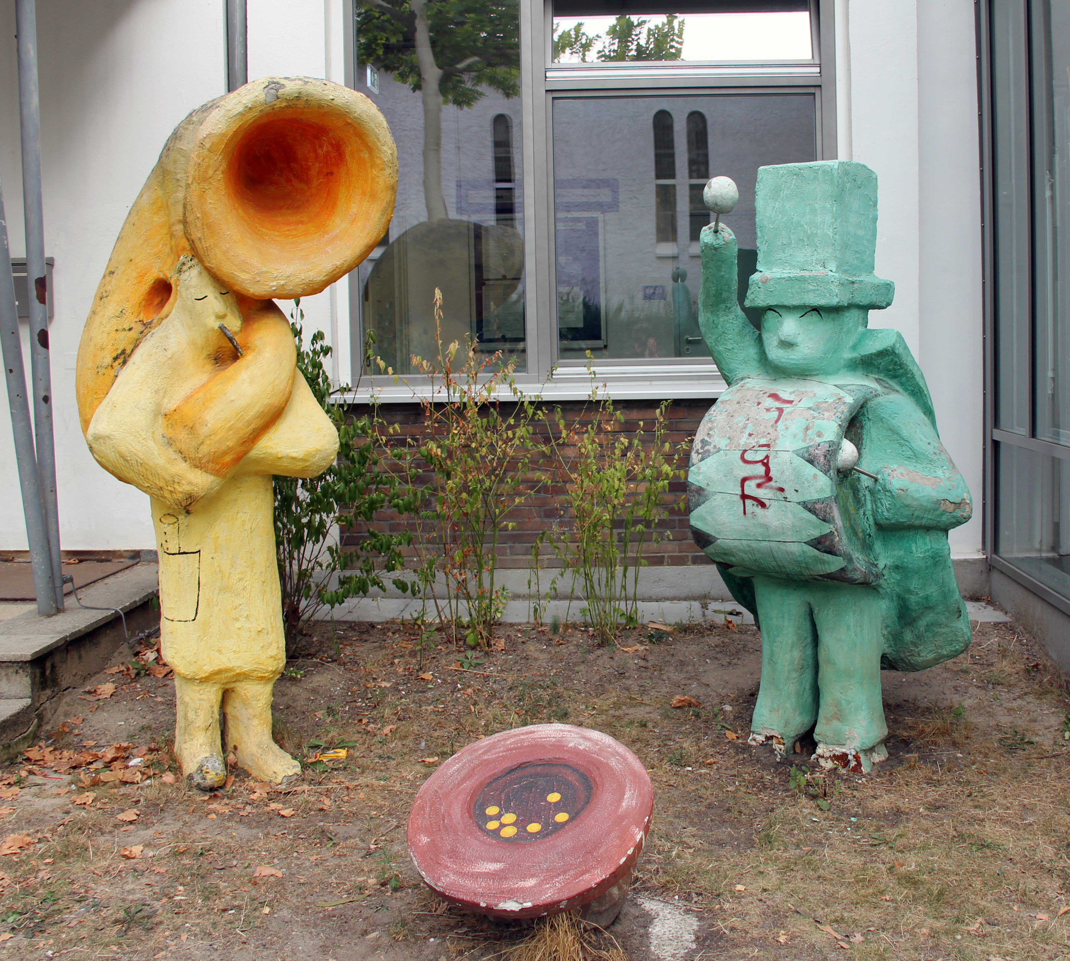 Sculpture, "Zwei Musiker und ein Hut" by Gabriele Rosskamp and Serge Petit, 2001, Hanstedter Weg 11, Berlin-Steglitz, Germany